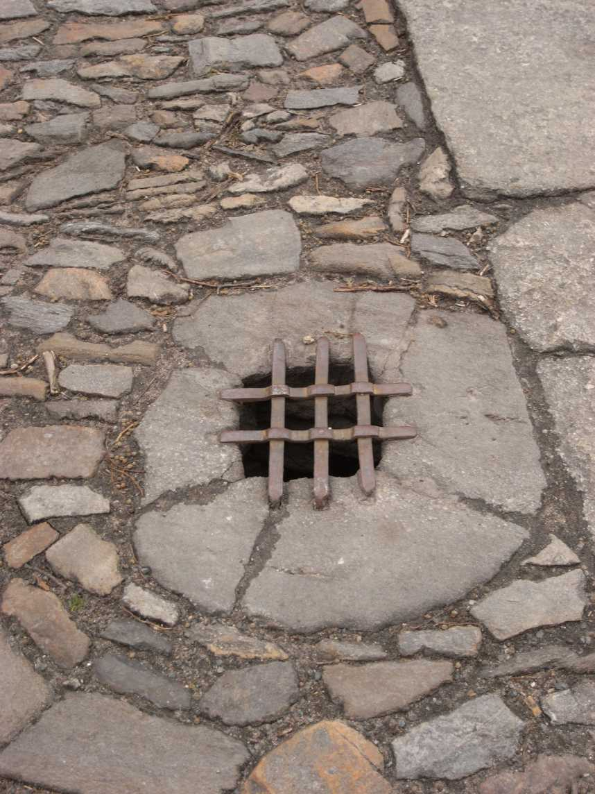 old sandstone/gneiss/quartzite cobbelstones and storm drain in Kutná Hora (Czech Republic), handmade